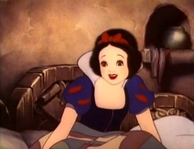 Screenshot of Snow White from the 1958 Reissue trailer for the film Snow White and the Seven Dwarfs. WARNING All the movie trailers released before 1964 are in the Public Domain because they were never separately copyrighted.